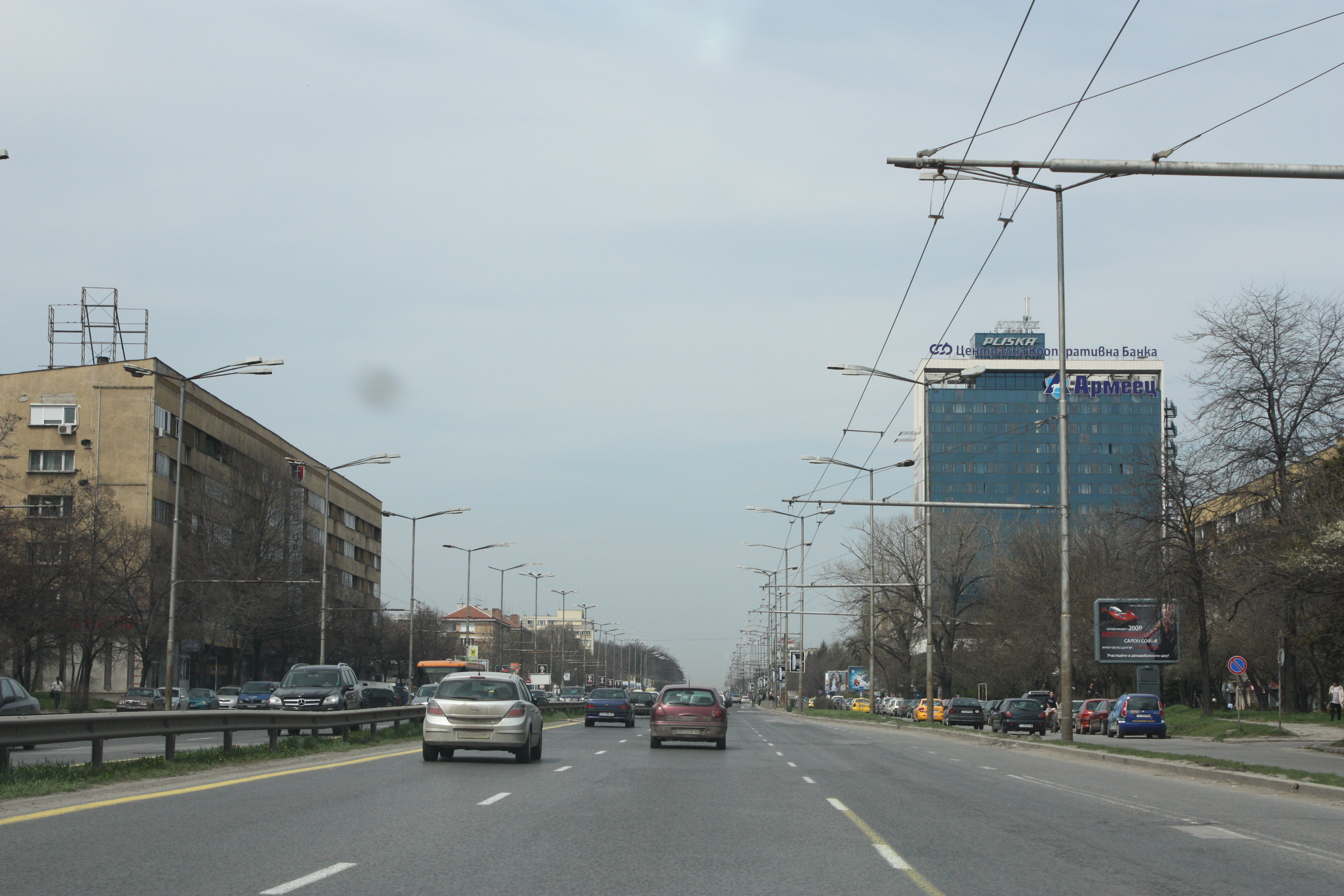 Streets in Sofia, Sofia, Bulgaria